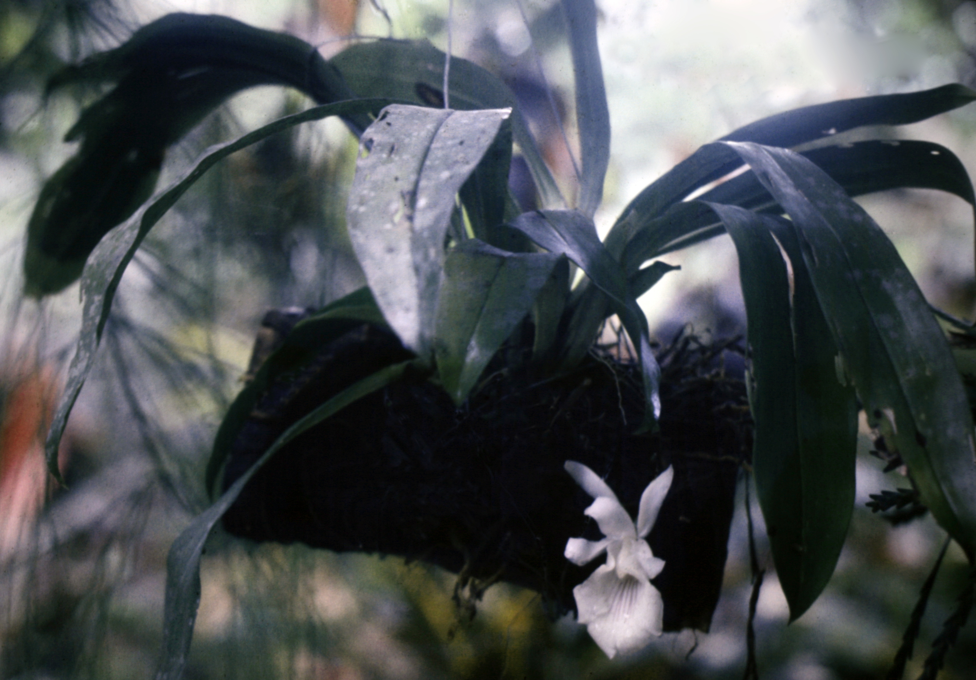 Cochleanthes amazonica, Suriname.